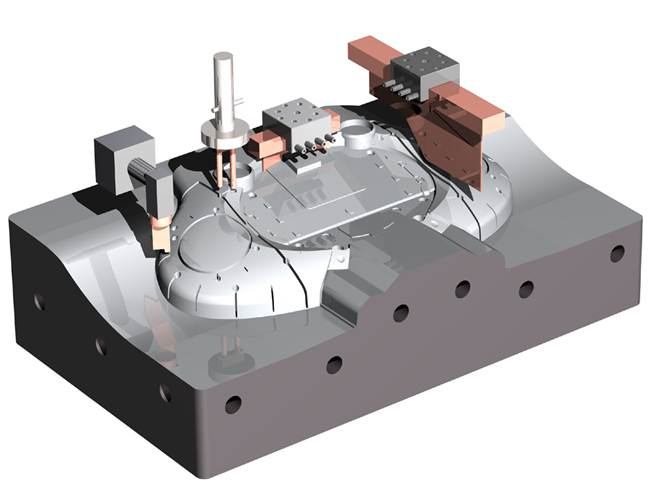 This is a render from the software PowerSHAPE